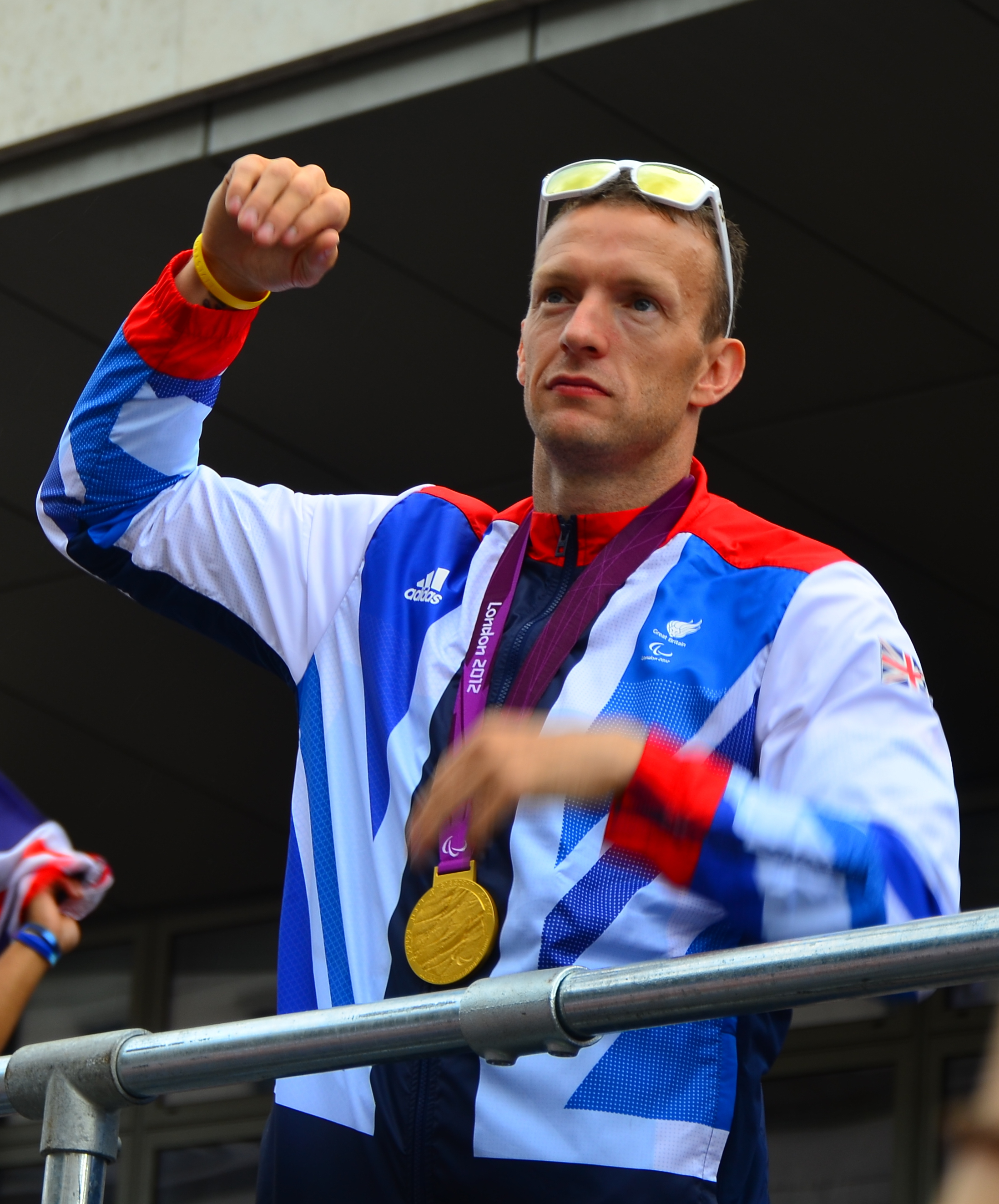 Richard Whitehead, Paralympic GB gold medal-winning sprinter sprinter